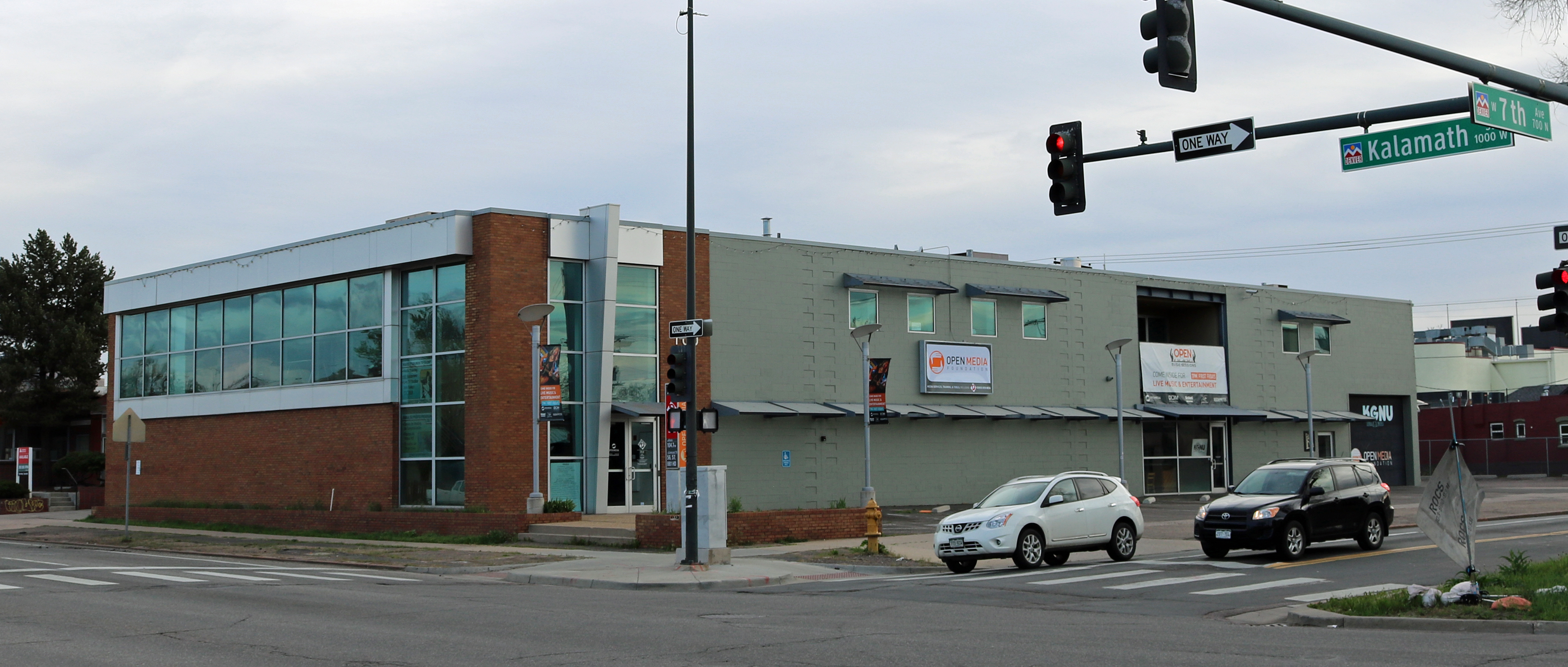 The Open Media Foundation, located at 700 Kalamath Street in Denver, Colorado.